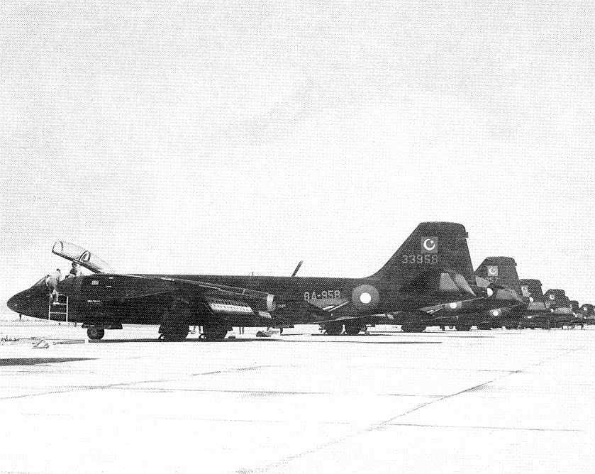 Pakistan Air Force B-57s. This is the No 31 Wing, which received the new bombers in 1957. Taken over 50 years ago, thus the image is now in the public domain in Pakistan.